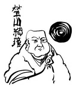 Zen Master Keizan Jokin